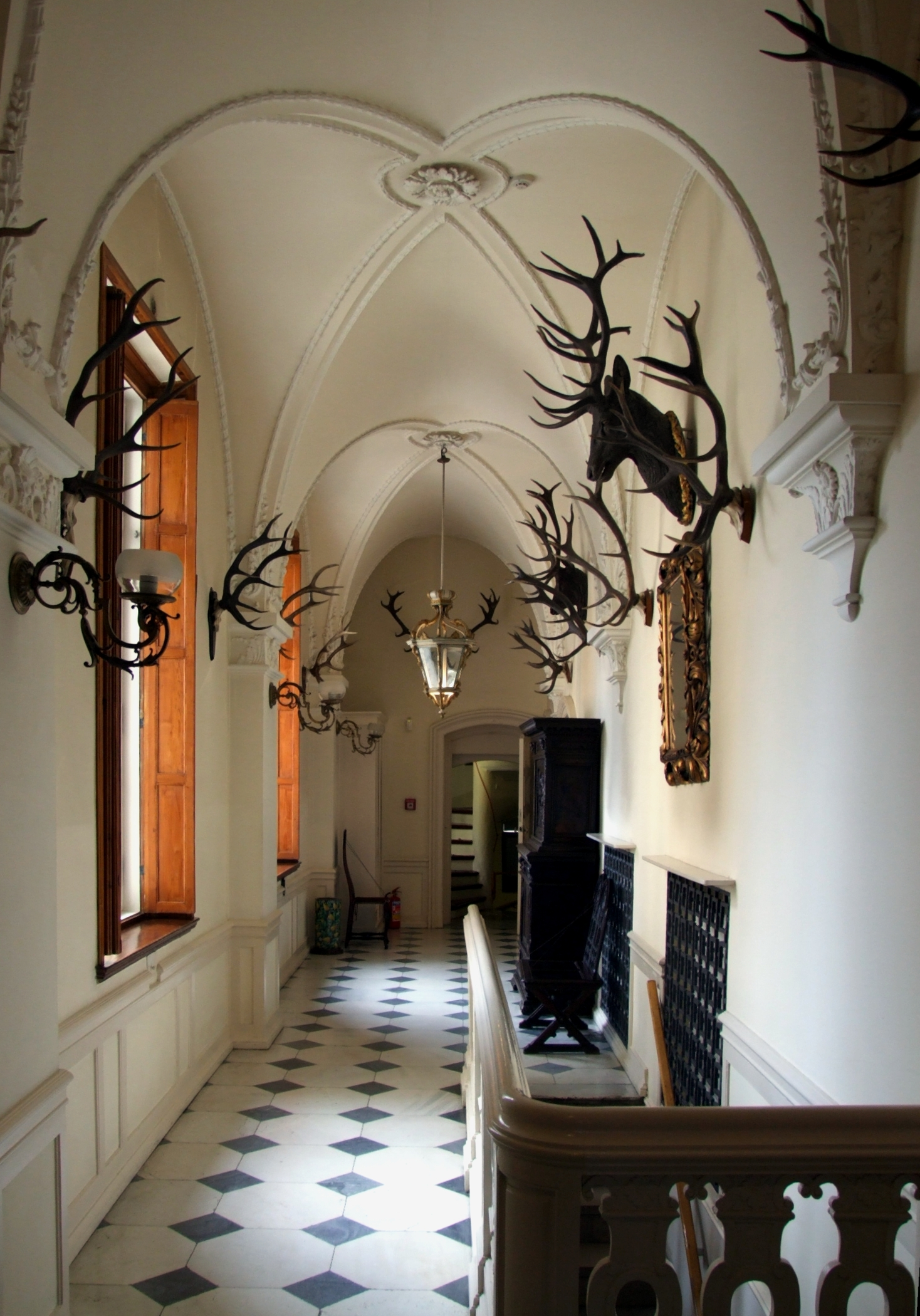 Palace of Pszczyna (Pless) - the western corridor (ground floor)